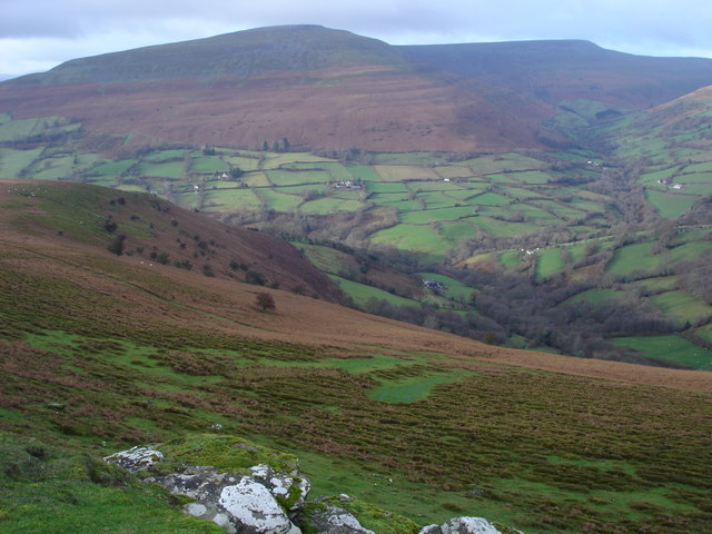 View to the west from Blaen-yr-henbant Pen Cerrig-calch and Pen Allt-mawr viewed from the summit of Blaen-yr-henbant. The valley below is the Vale of Grwyney just to the north of Llanbedr.